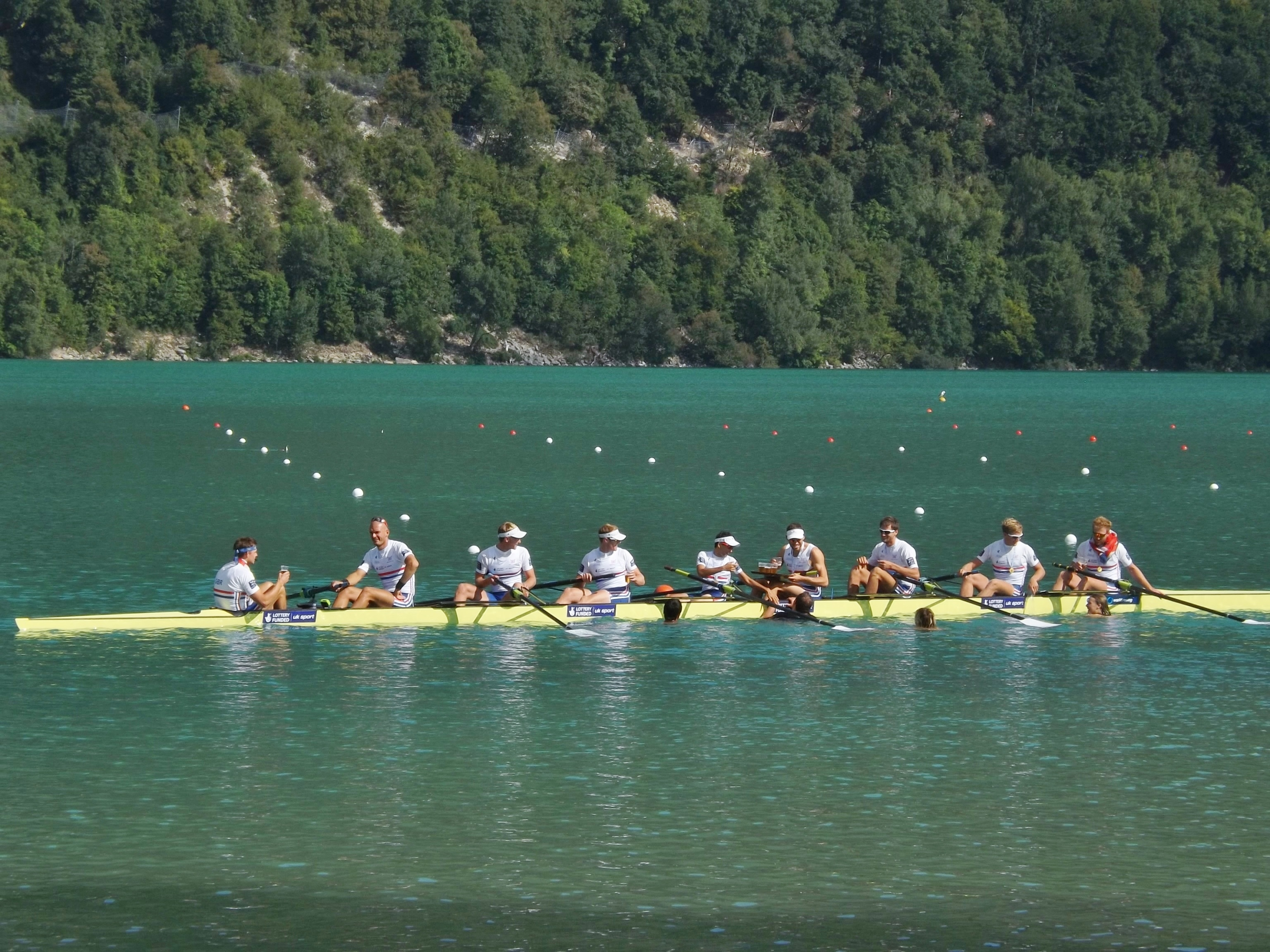 Sight of gold medallists from Great Britain being offered some drinks onto the water, at the very end of the 2015 World Rowing Championships on the lac d'Aiguebelette lake, in Savoie, France.